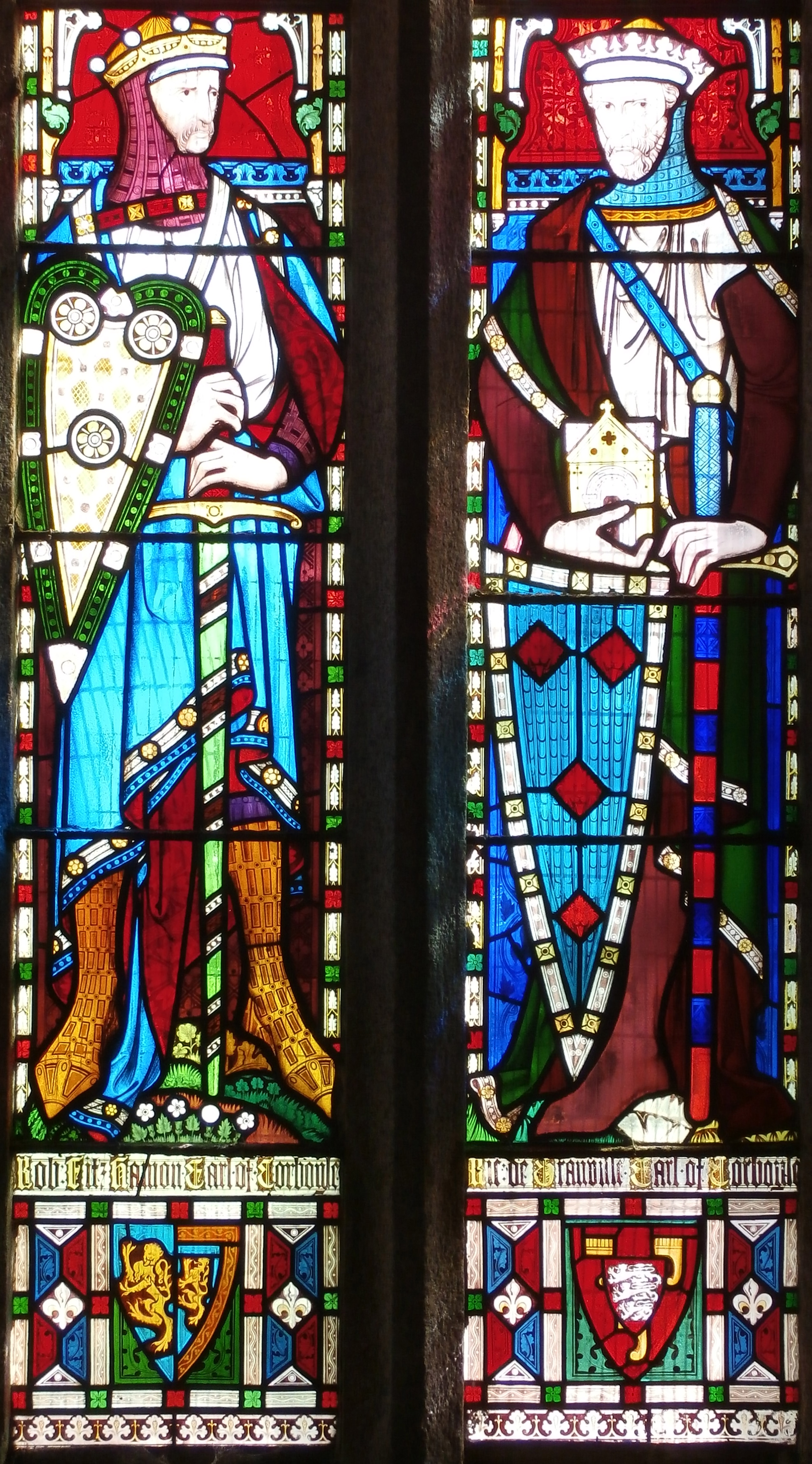 1860 imaginary depiction of Robert FitzHamon (d.1107) (left) and his younger brother Richard de Grenville (d. post 1142) (right). Below the left-hand figure is inscribed: "Rob. FitzHamon Earl of Corboyle", with attributed arms under showing: Azure, alion rampant guardant or impaling Azure, a lion rampant or a bordure of the last. Below the right hand figure of Richard de Granville, who holds in his hands the church of his foundation of Neath Abbey, is inscribed: "Ric. de Granville Earl of Corboyle" with attributed arms under showing: Gules, three clarions or (the arms of his overlord the de Clare, Earl of Gloucester) with an inescutcheon of pretence of Gules, three lions passant argent. Detail from 1st (east) Grenville Window (1860) in south wall of Grenville Chapel, Church of St James the Great, Kilkhampton, Cornwall. Window erected in 1860 jointly by descendants of of the Grenville family: George Granville Sutherland-Leveson-Gower, 2nd Duke of Sutherland KG (1786-1861); John Alexander Thynne, 4th Marquess of Bath (1831–1896); George Granville Francis Egerton, 2nd Earl of Ellesmere (1823–1862); Lord John Thynne (1798-1881), DD, Canon of Westminster, a younger son of Thomas Thynne, 2nd Marquess of Bath (1765-1837), KG.